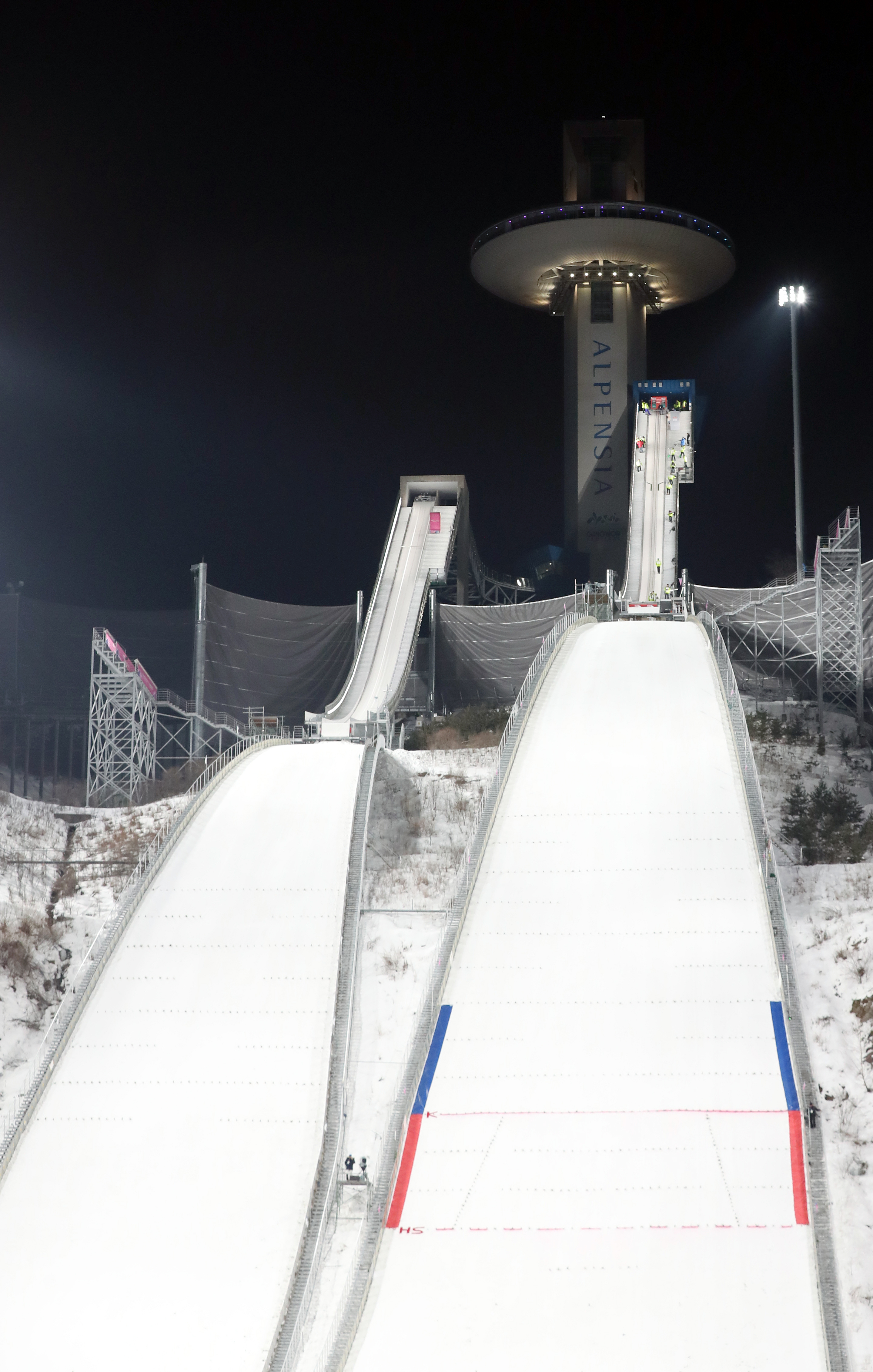 FIS Nordic Combined World Cup February 4, 2017 Alpensia Cross-Country Center, Pyeongchang-gun, Gangwon-do Ministry of Culture, Sports and Tourism Korean Culture and Information Service ( Official Photographer : Jeon Han This official Republic of Korea photograph is being made available only for publication by news organizations and/or for personal printing by the subject(s) of the photograph. The photograph may not be manipulated in any way. Also, it may not be used in any type of commercial, advertisement, product or promotion that in any way suggests approval or endorsement from the government of the Republic of Korea. FIS 노르딕컴바인 월드컵 2017-02-04 알펜시아 크로스컨트리 센터 문화체육관광부 해외문화홍보원 코리아넷 전한